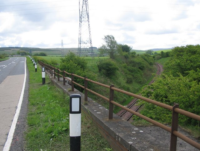 Bridge south of Holehouse Junction. A view looking southeast from the bridge carrying the A713 over the railway line to the south of Holehouse Junction.